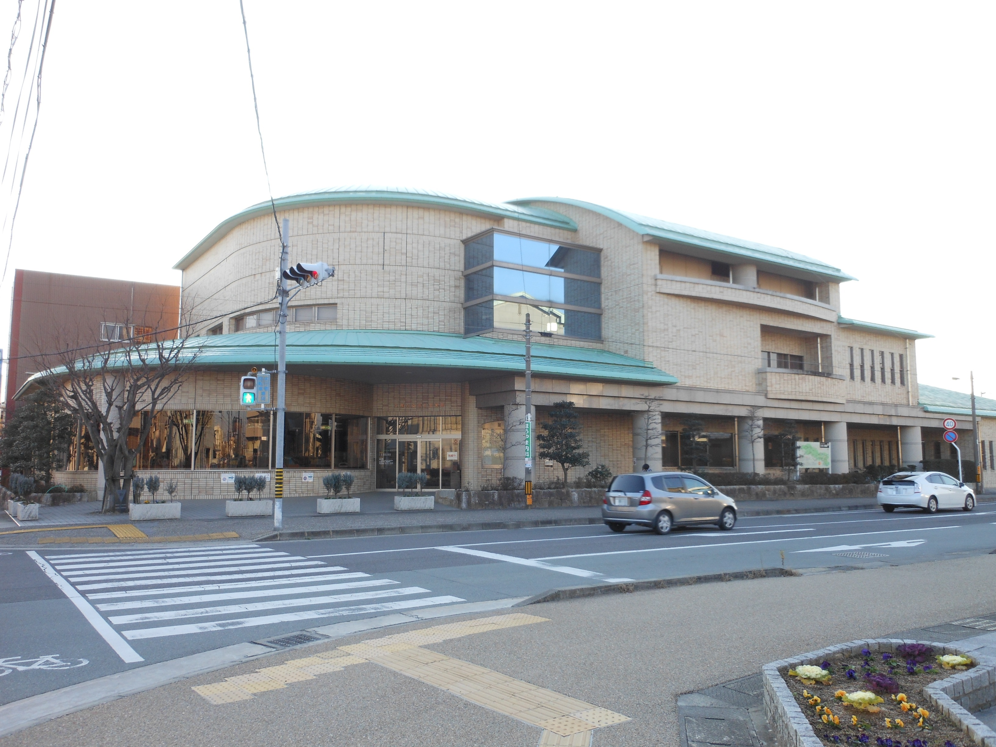 This is the Tsu city Hisai Furusato Museum of Literature in Tsu, Mie, Japan.